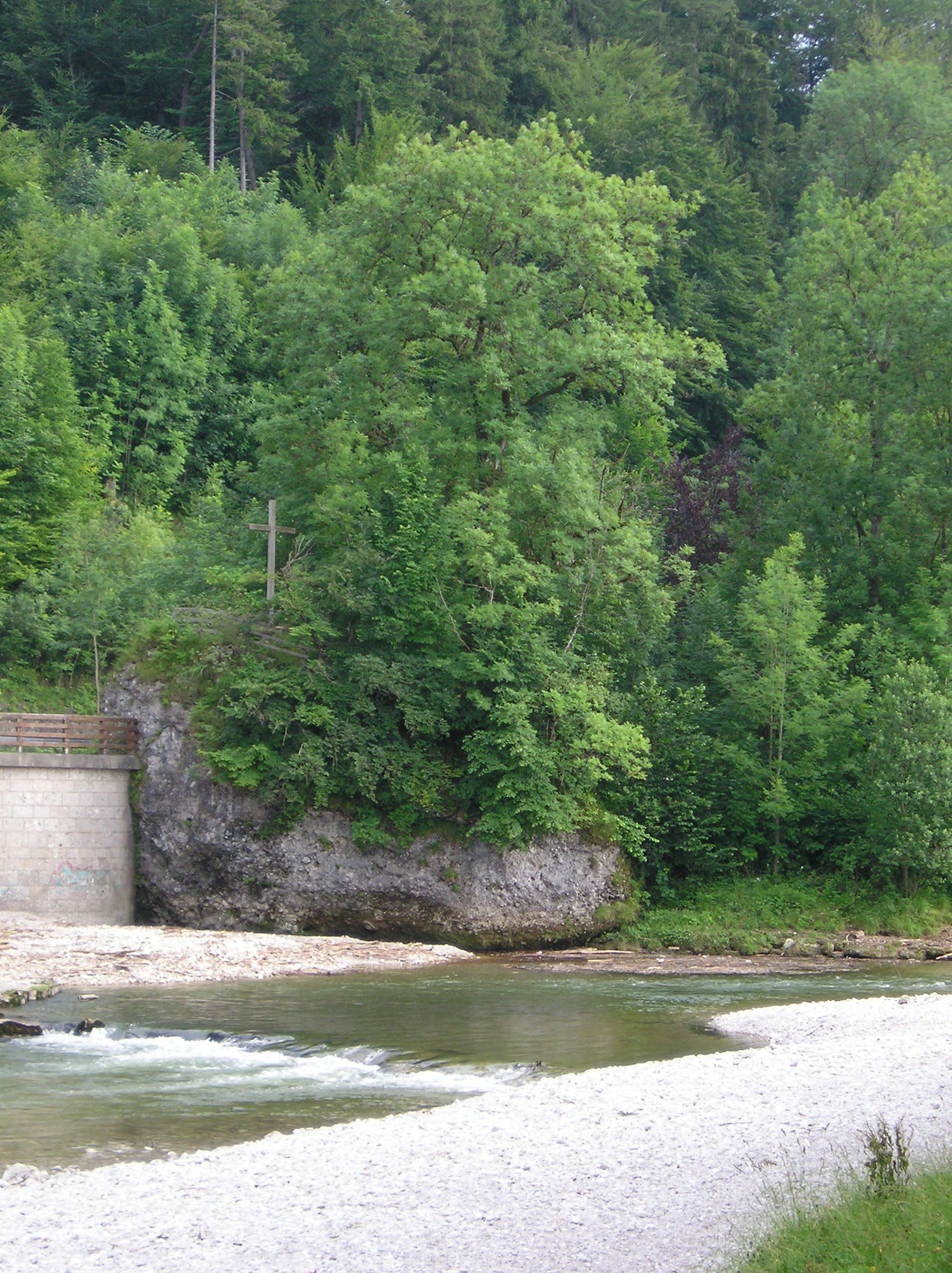 geotope, conglomerate, Geotop Nummer: 189R006